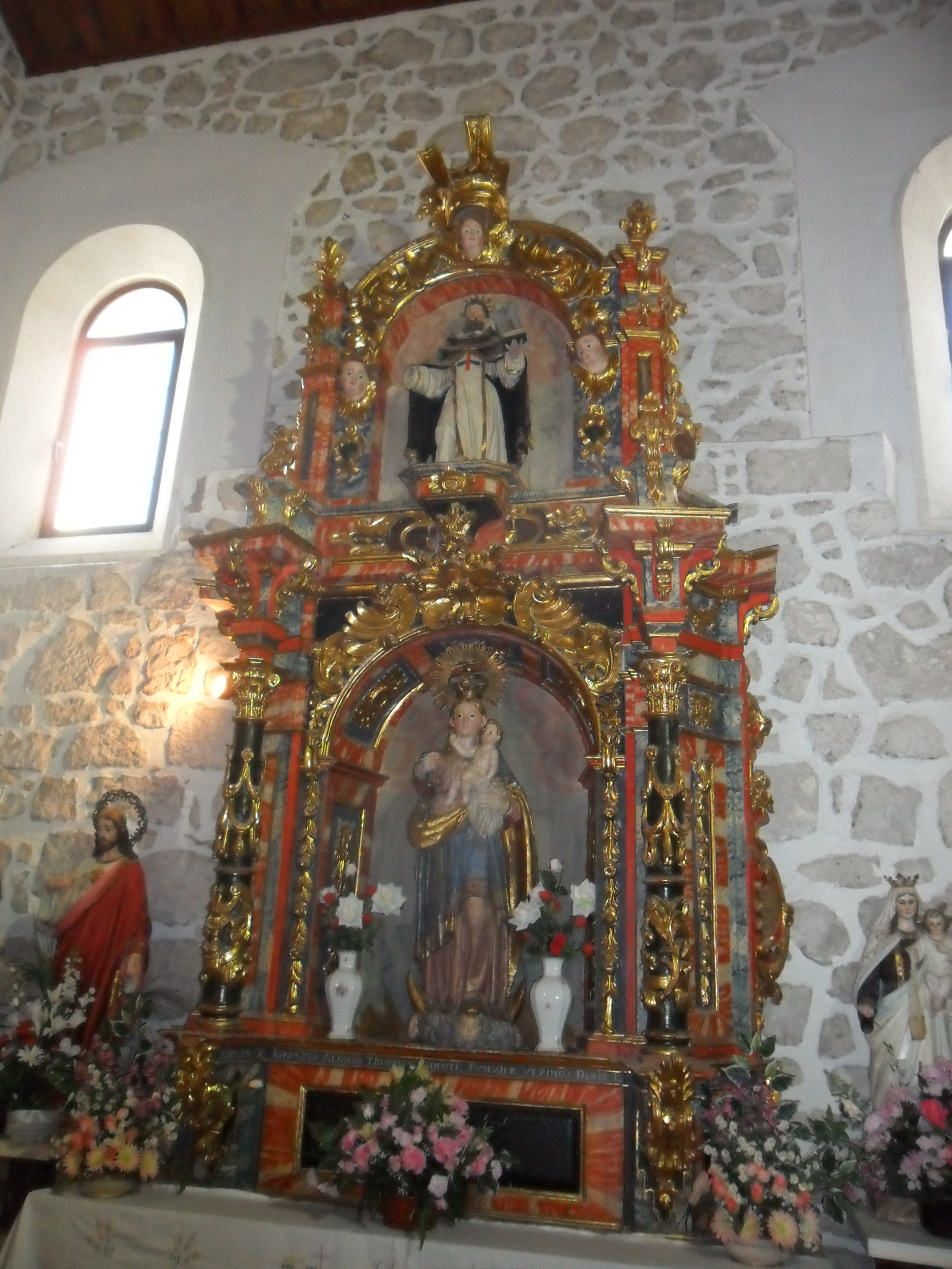 Baroque Altarpiece (1757). Santibáñez de Valcorba, Valladolid.Spain